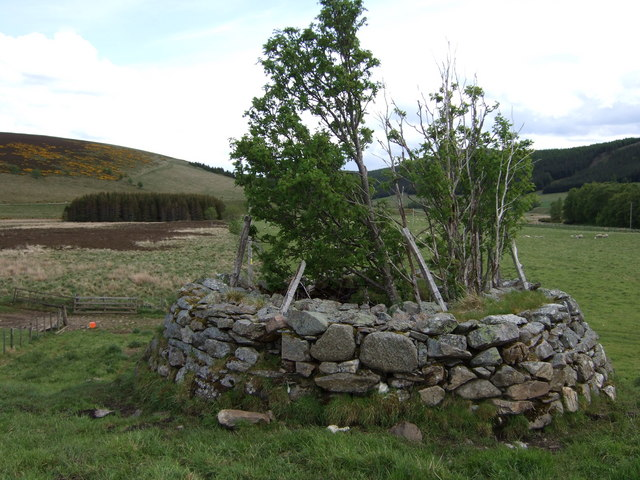 The top of the Badenyon lime kiln